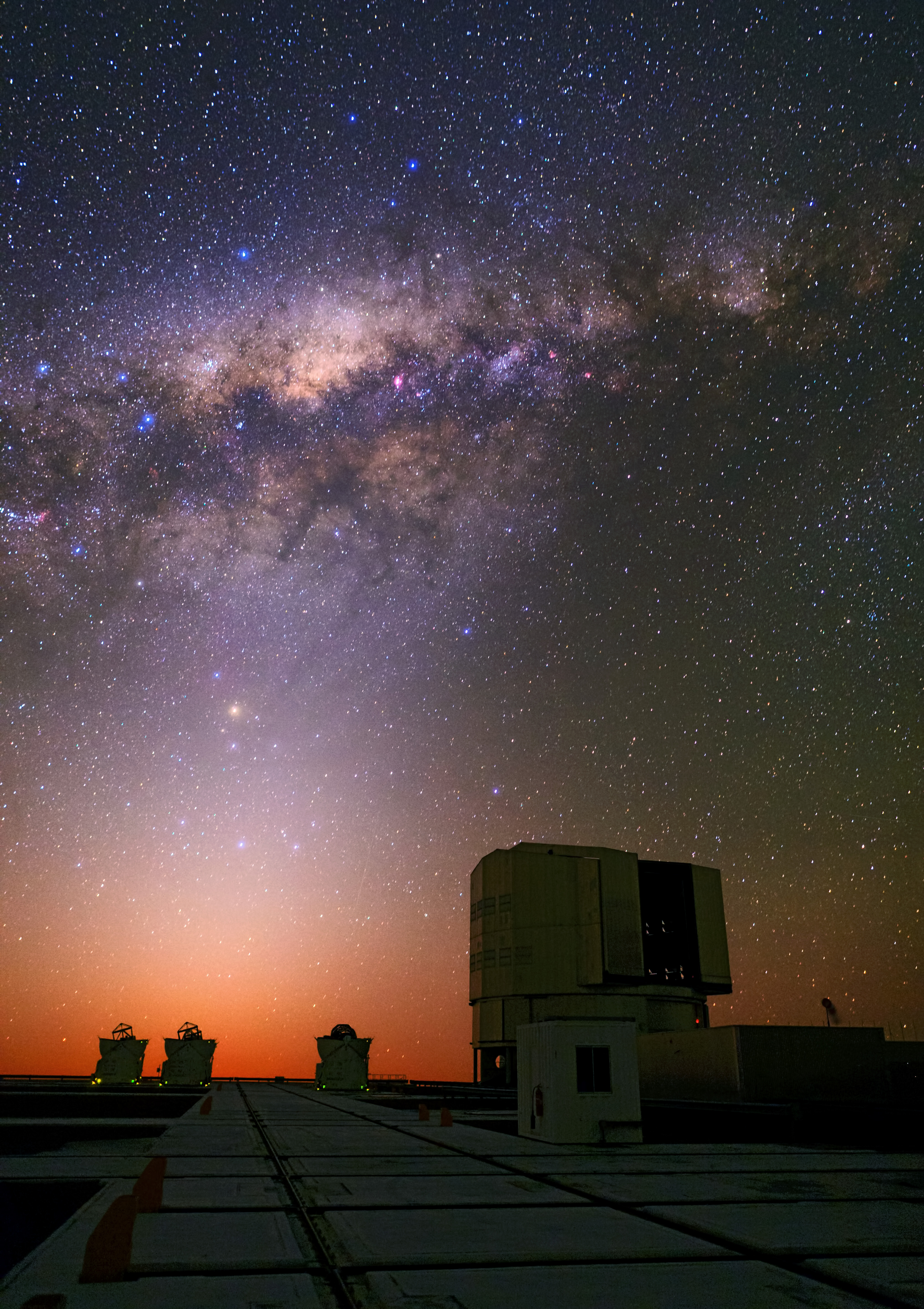 In this romantic scene a bright, crimson sunset complements the colourful centre of the Milky Way and the zodiacal light above the platform of the Very Large Telescope (VLT) on Cerro Paranal. The pink regions scattered across the disc of our galaxy are regions where new stars are being born. On average the disc is about 1000 light-years tall and about 100 000 light-years in diameter. The setting Sun is just one of over 400 billion stars found in the Milky Way. Captured in this image is one of the Unit Telescopes (UTs, here UT1 also known as Antu) and three of the four Auxiliary Telescopes (ATs) which form part of the Very Large Telescope Interferometer (VLTI). To the left of the UT is a very faint meteor, and the red supergiant star Antares stands out above the ATs. Antares is found at the heart of the constellation of Scorpius (The Scorpion). This photograph was taken by Babak Tafreshi, one of the ESO Photo Ambassadors. Links Babak’s image archive at ESO Babak’s homepage TWAN Gallery Babak’s Facebook Page